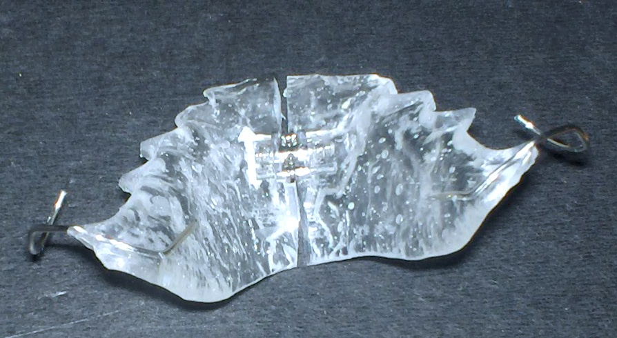 This is one pair of my dental Palatal expnader. The bubbles in the expander are not saliva, they are like that the material that it was made (silicon???) made that bubbles inside the expander.